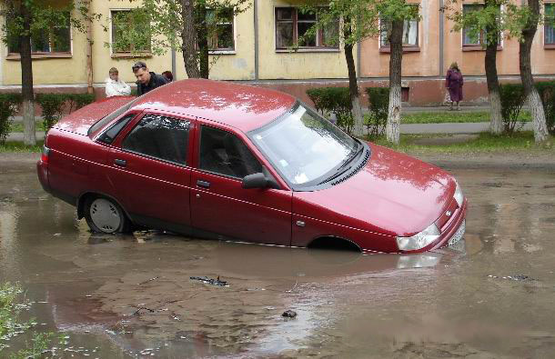 Upps!